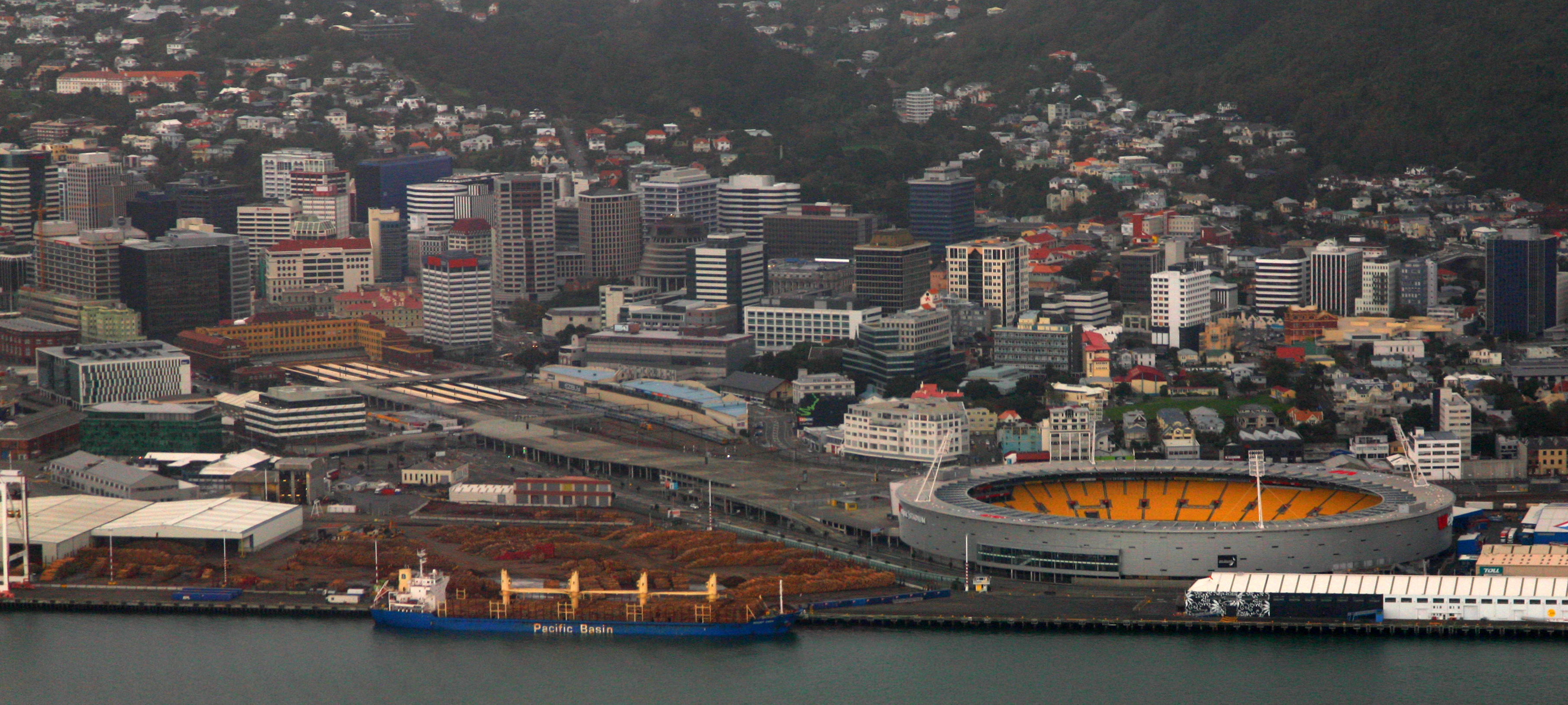 Approaching Wellington, New Zealand at the end of a flight from New York by way of Los Angeles and Auckland. This is CentrePort and Westpac Stadium.